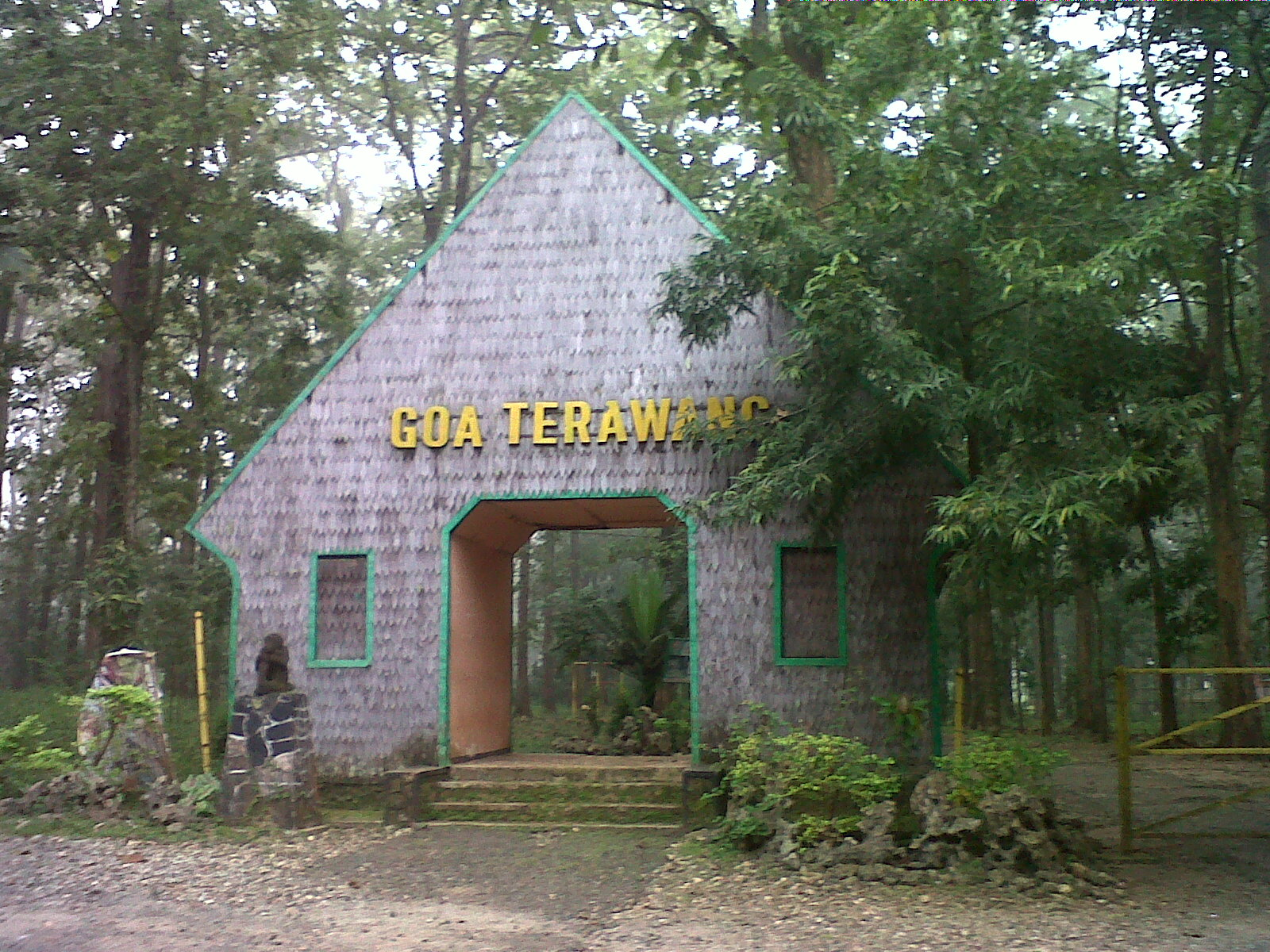 Goa terawang Blora Jateng Indonesia